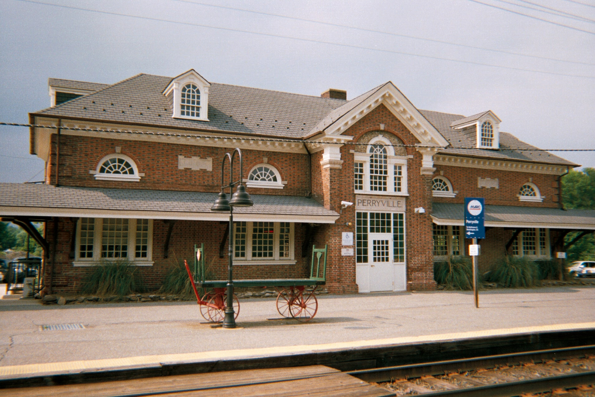 Image of the 1905-built Perryville (MARC station) from the tracks. Originally built by the Philadelphia, Wilmington & Baltimore Railroad then acquired by the Pennsylvania Railroad. A written alert to MARC and Amtrak, there were some dangerous nails sticking out of that wooden crosswalk when I was there.